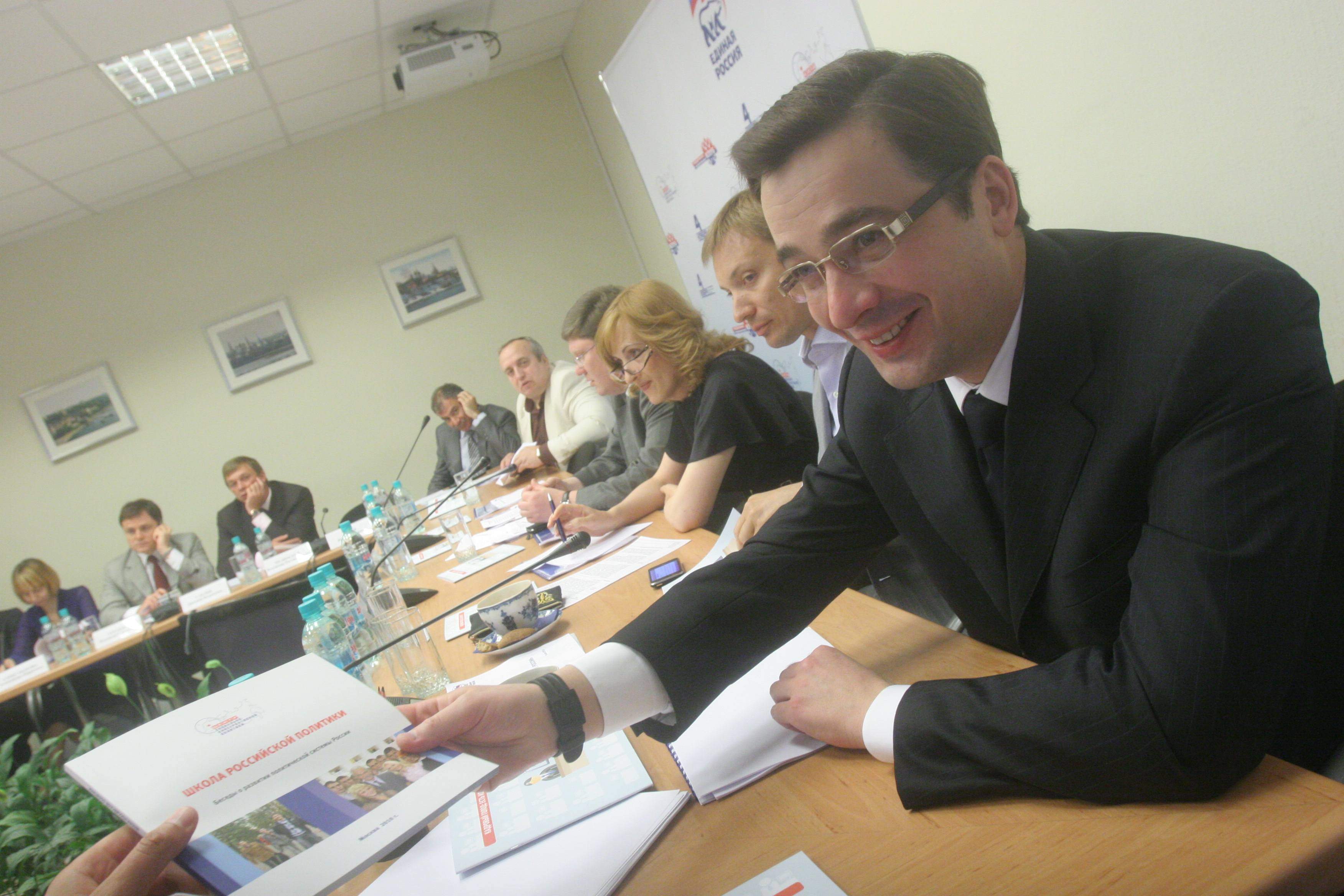 Members of clubs of "United Russia" party at the general meeting, 2010.